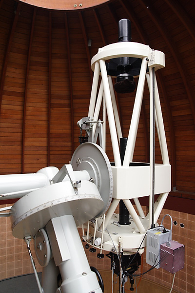 0.6m Carl Zeiss Cassegrain telescope in Ostrowik near Warsaw